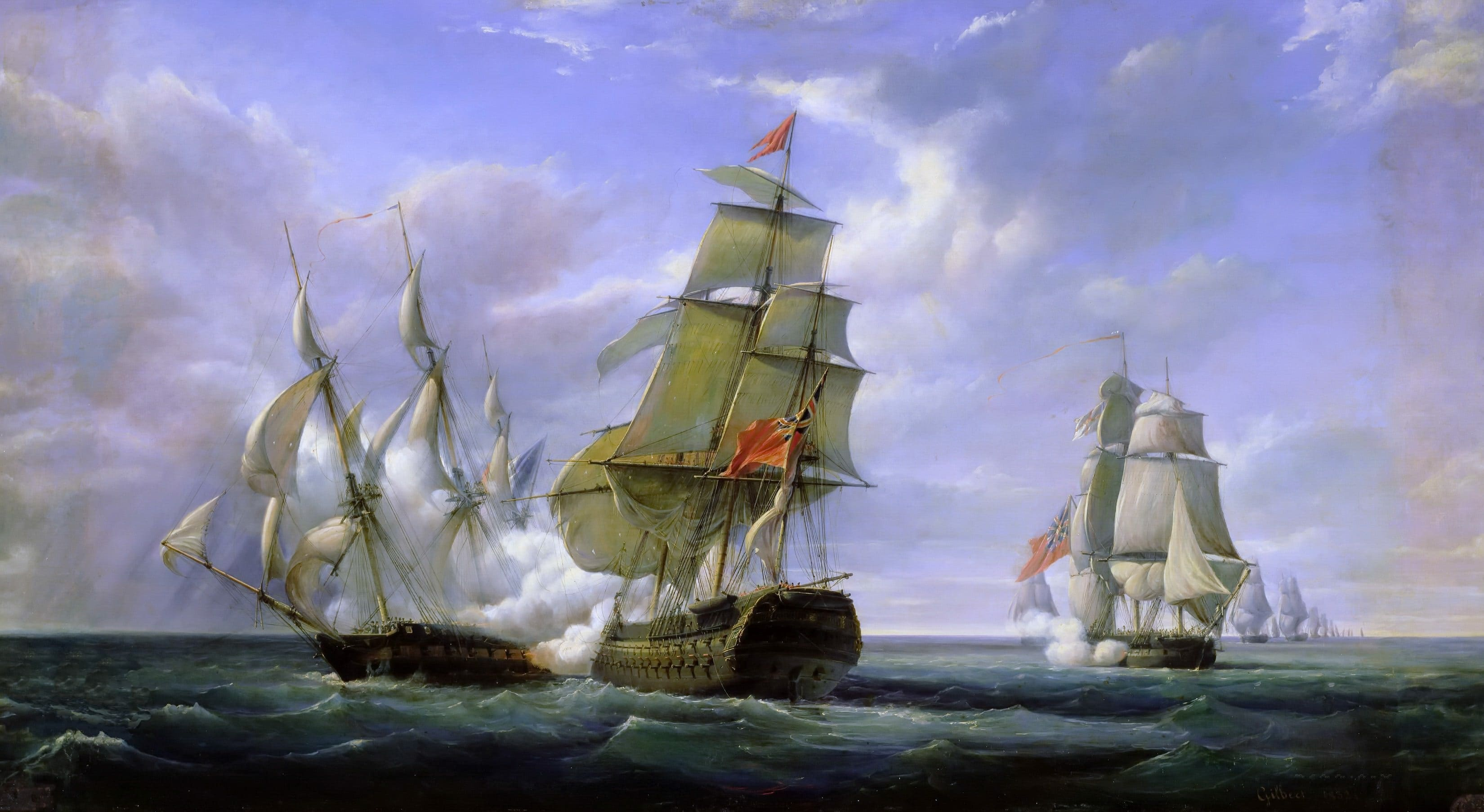 Fight of the British Third Rate 74-gun ship-of-the-line HMS Tremendous (in the centre) and HMS Hindostan (first from right) against the French frigate Cannonière (first from left), 21 April 1806.